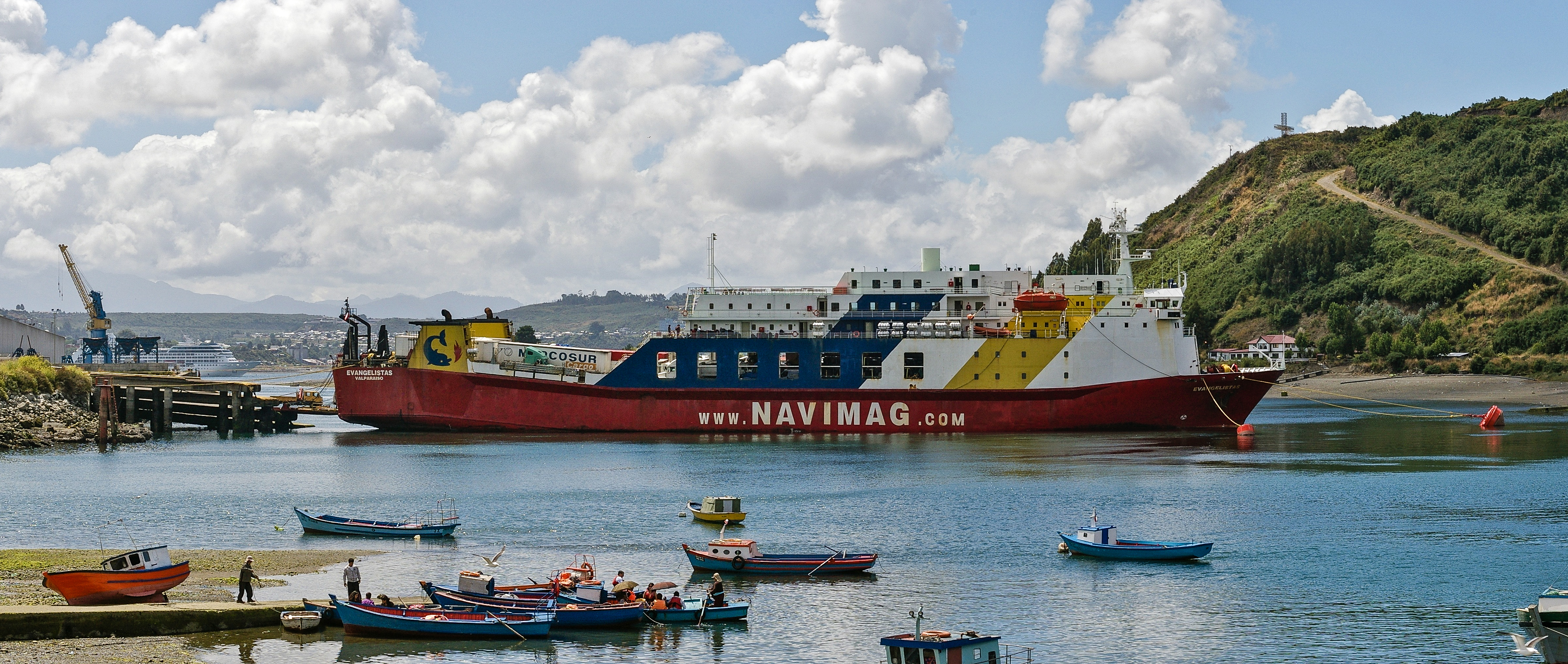 NAVIMAG ferry, MV Evangelistas, being loaded in Puerto Montt, Chile, 4 hours before leaving for Puerto Natales.